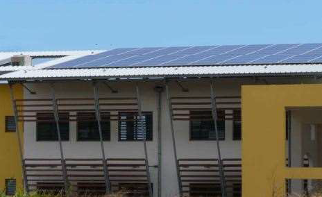 photovoltaic panel on the roof of ENERPOS